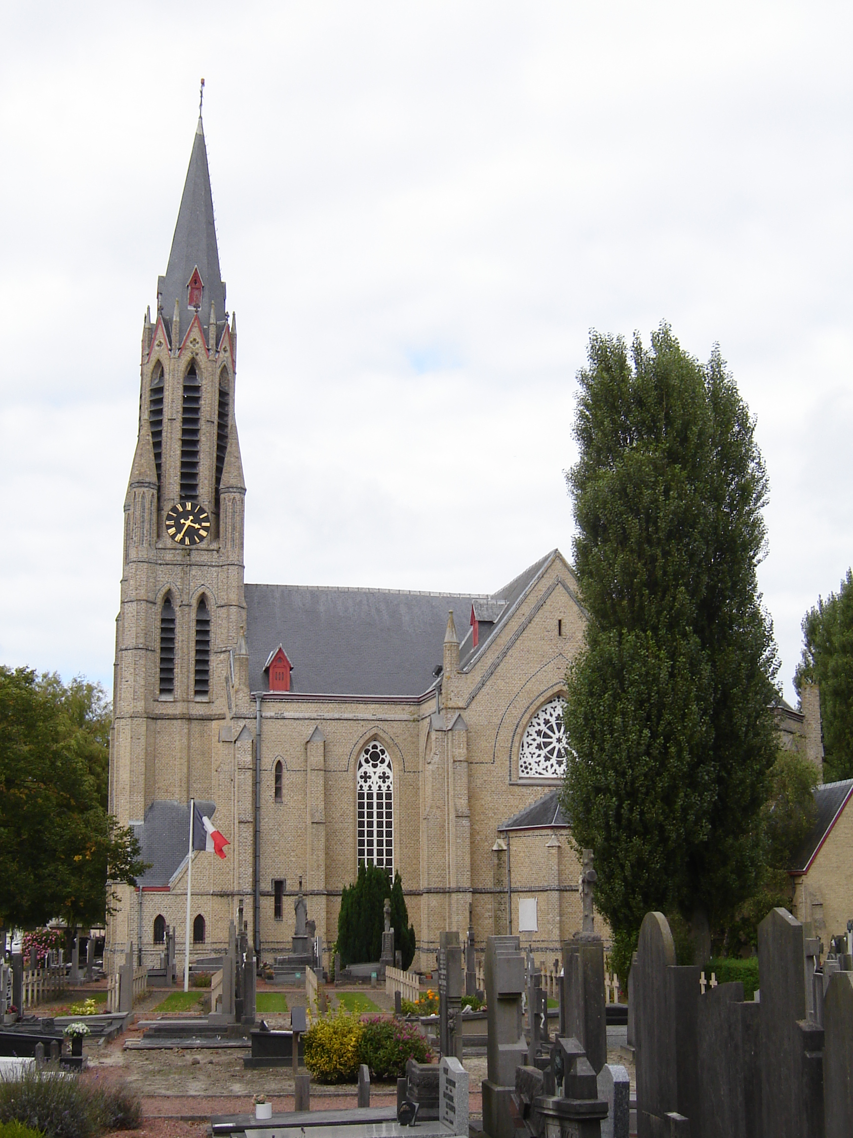 Church of Saint Peter in Koksijde-Dorp ("Koksijde-Village"). Koksijde, West Flanders, Belgium